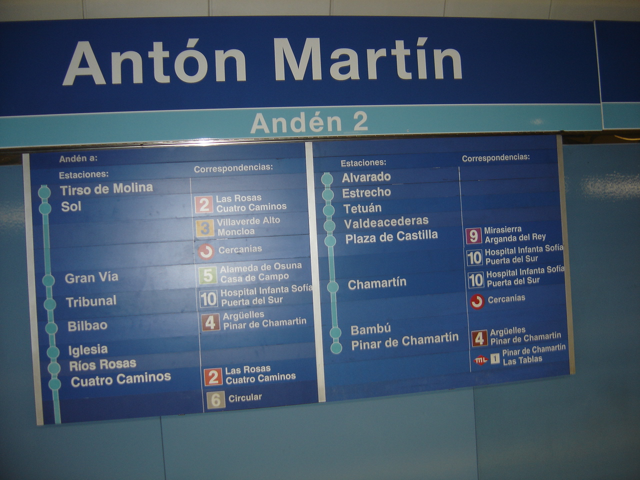 Madrid Metro List of station, line 1